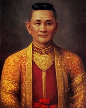 Portrait of Kawila, 1st King Ruler of Chiang Mai